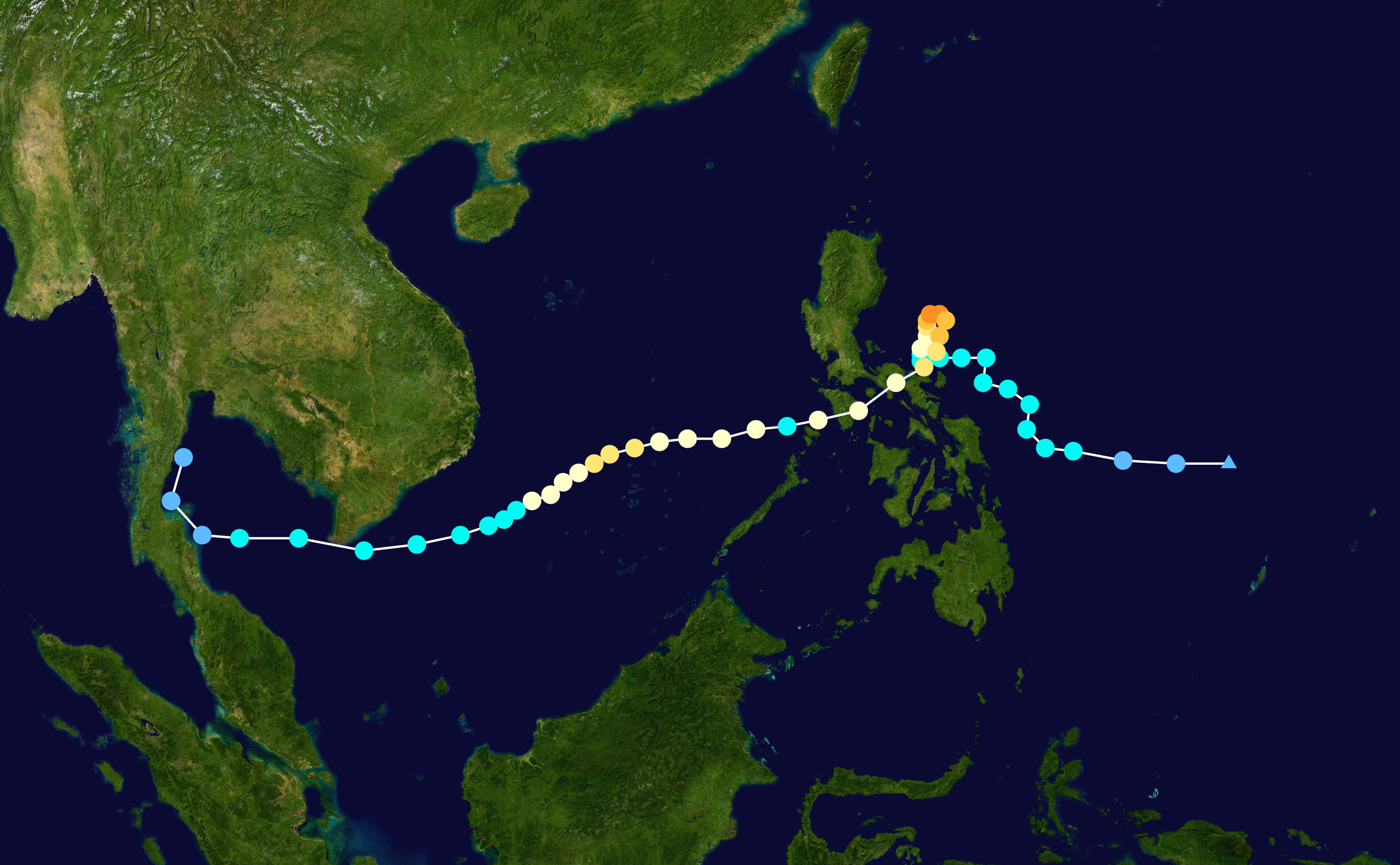 Typhoon Muifa (2004) track. Uses the color scheme from the Saffir-Simpson Hurricane Scale.